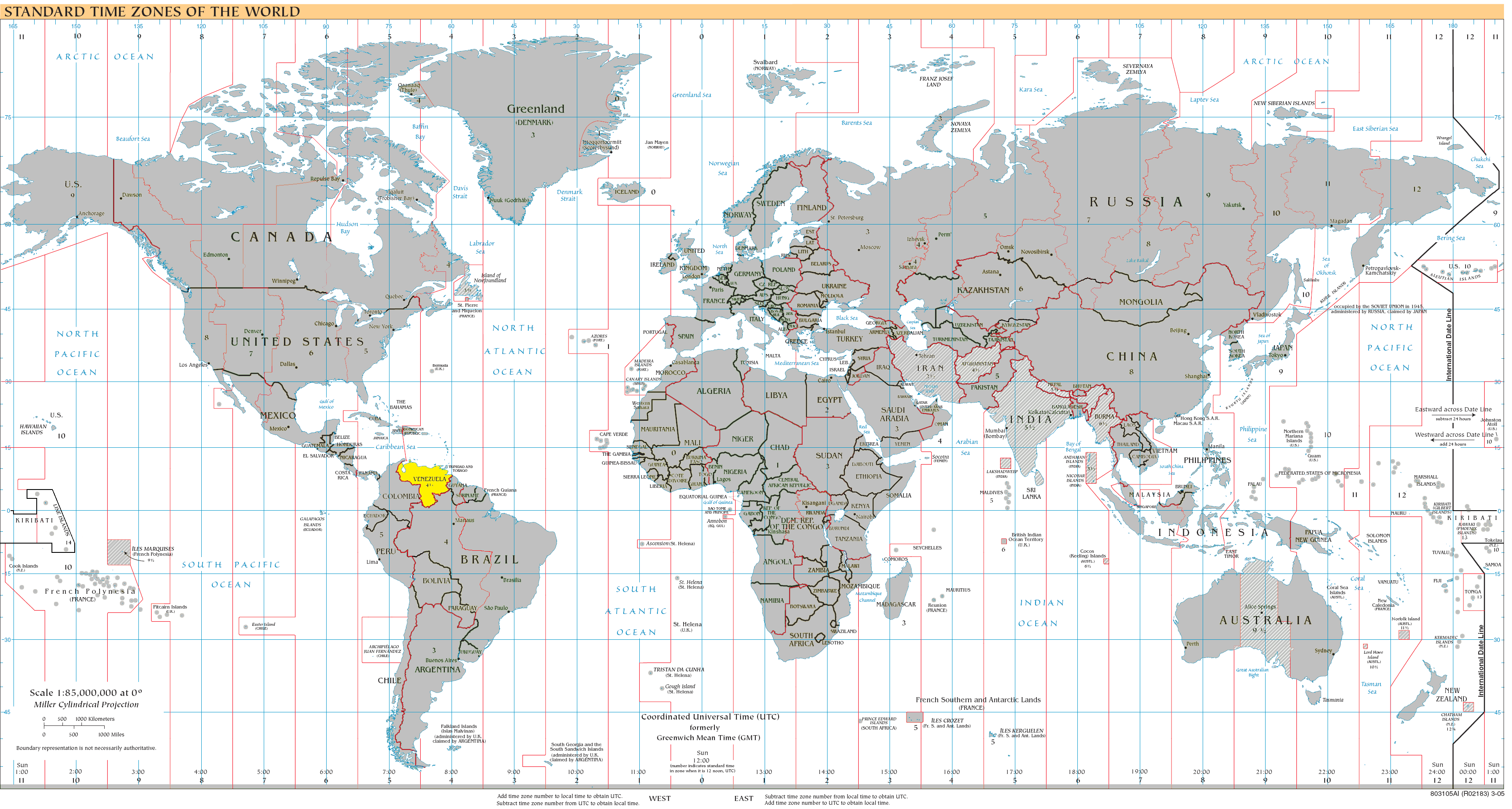 World map of time zones as of June 2008 HIghligting UTC-4:30 Yellow - all year round.